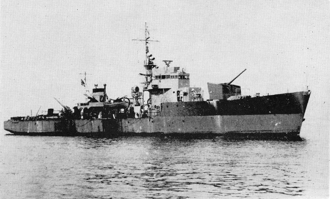 Japanese type Hei escort vessel "No.17".